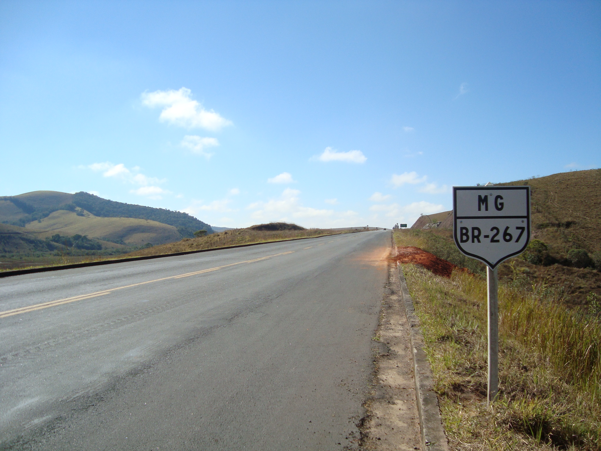 Road BR-267 in Aiuruoca, Minas Gerais, Brazil